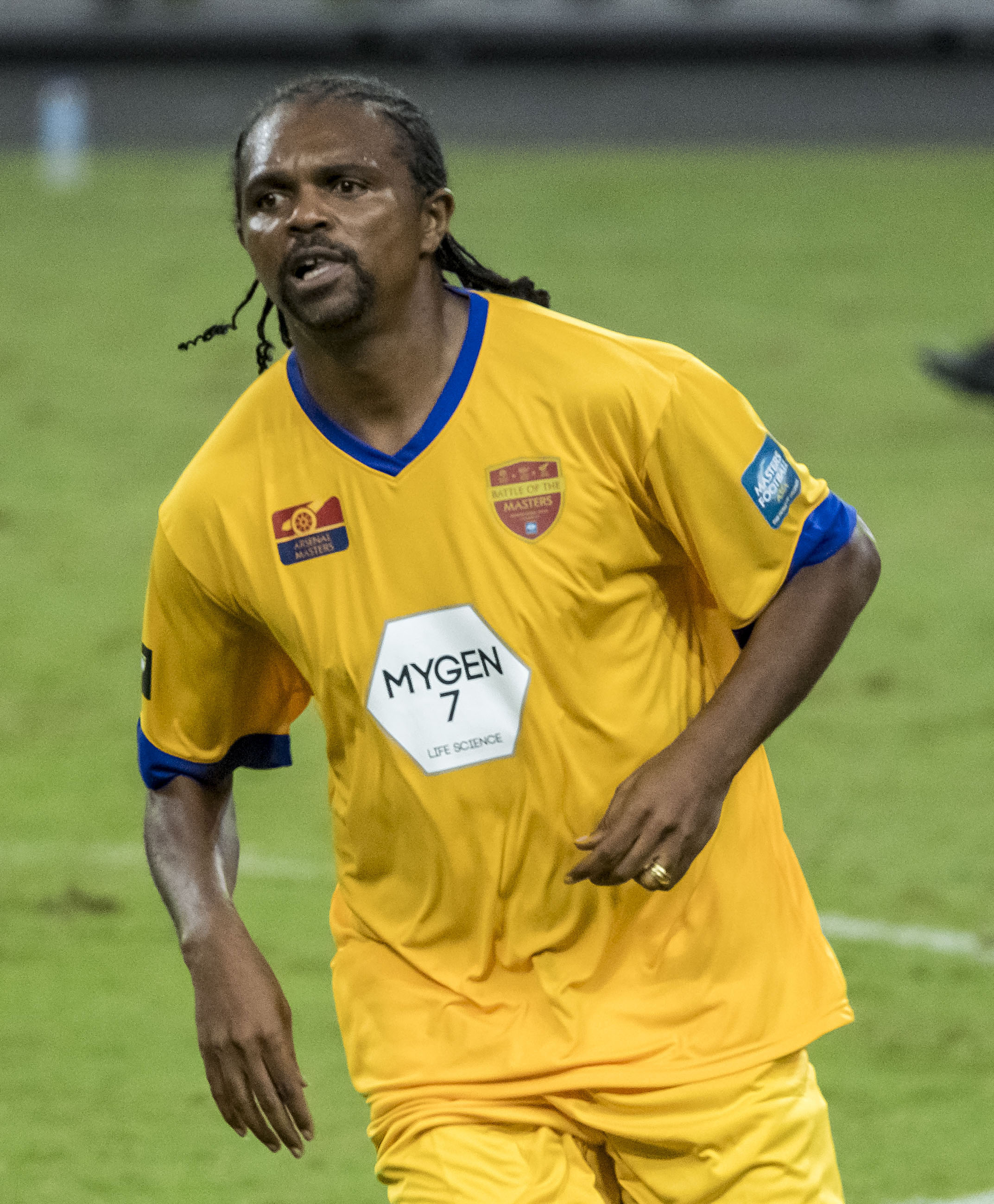 Singapore, National Stadium, November 11, 2017. Retired Nigerian footballer Nwankwo Kanu in a friendly match with Arsenal Masters.